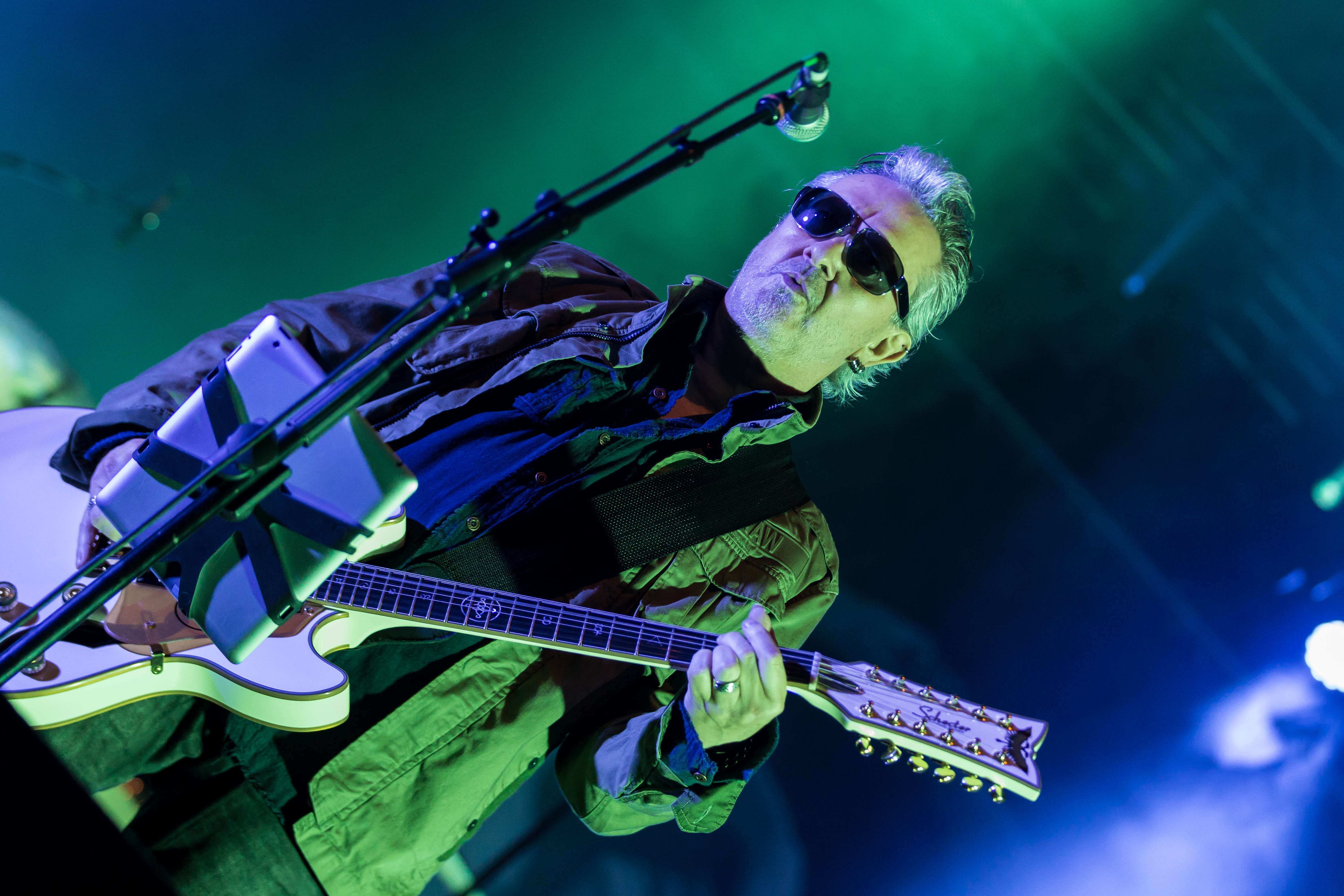 The British gothic rock band The Mission at the Wave-Gotik-Treffen 2017 in Leipzig/Germany (Venue Agra).